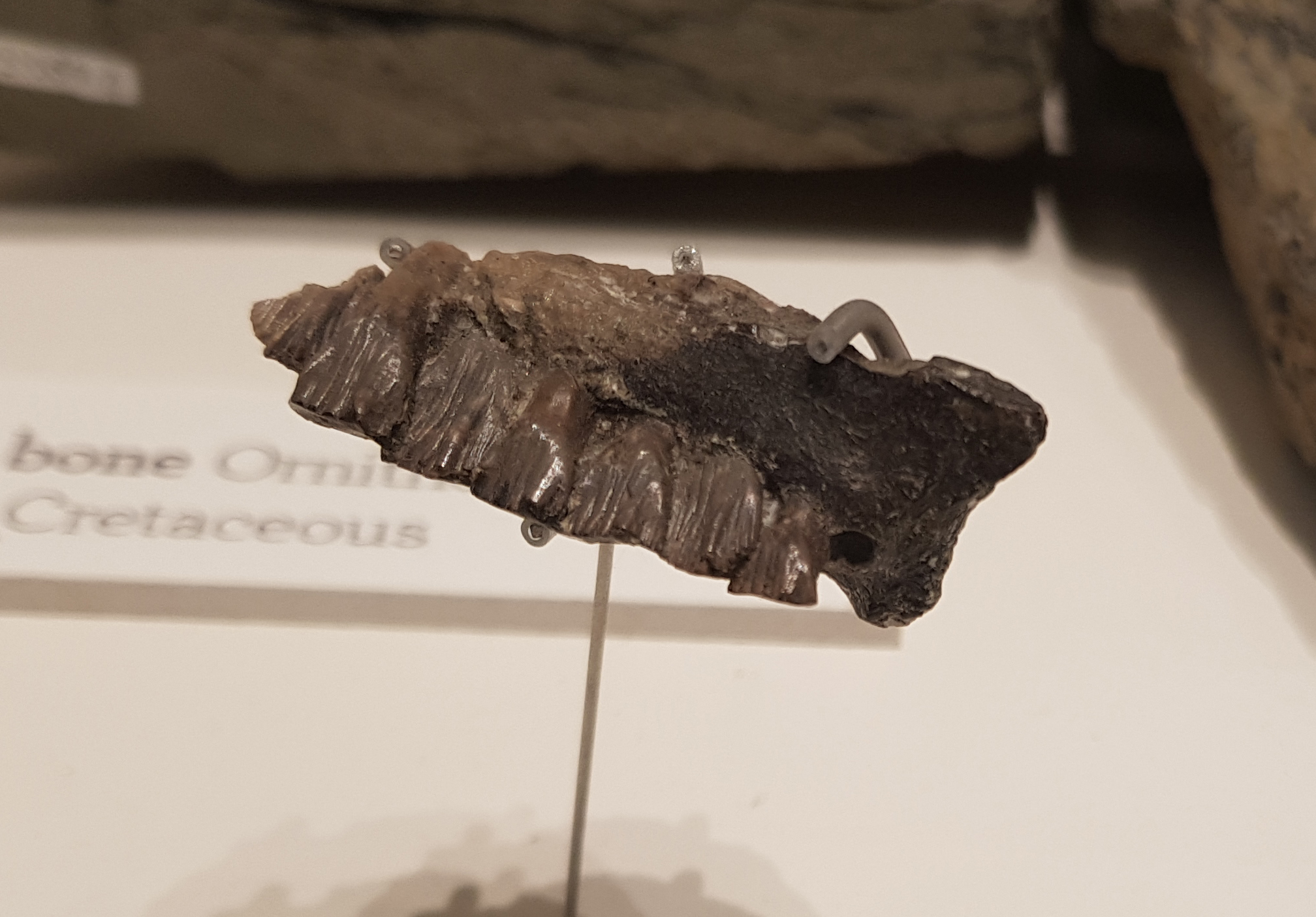 Dentary of Atlascopcosaurus at the Melbourne Museum